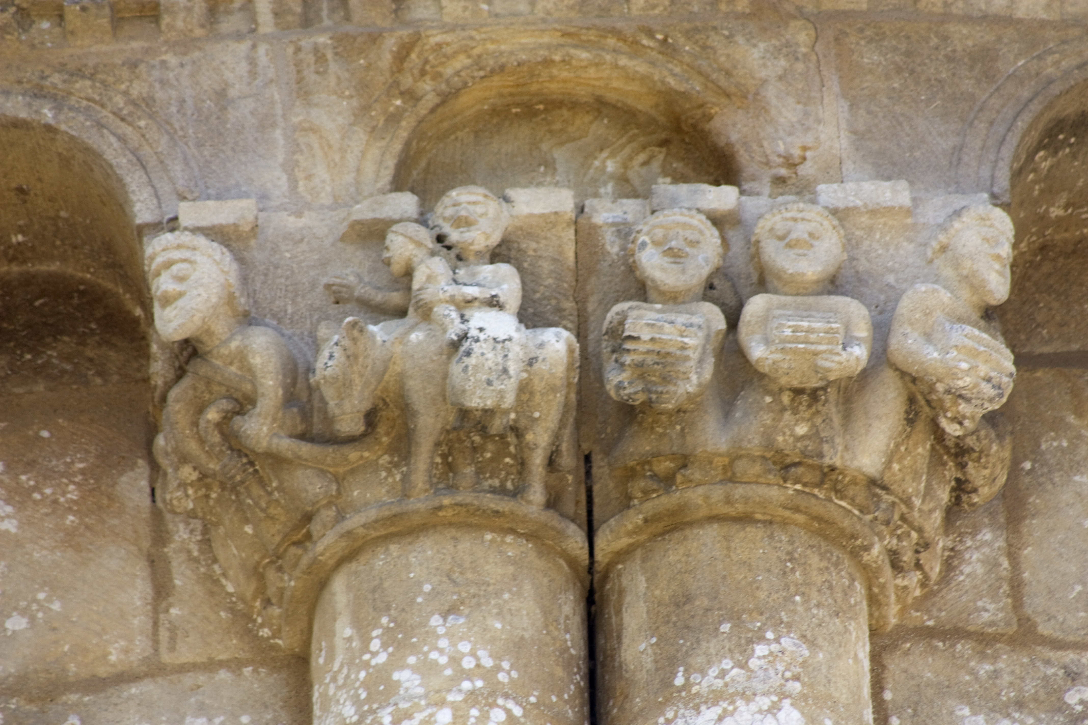 The capitals of Apses present the pillars of faith, for Christ's birth: the flight into Egypt and the coming of the Magi.